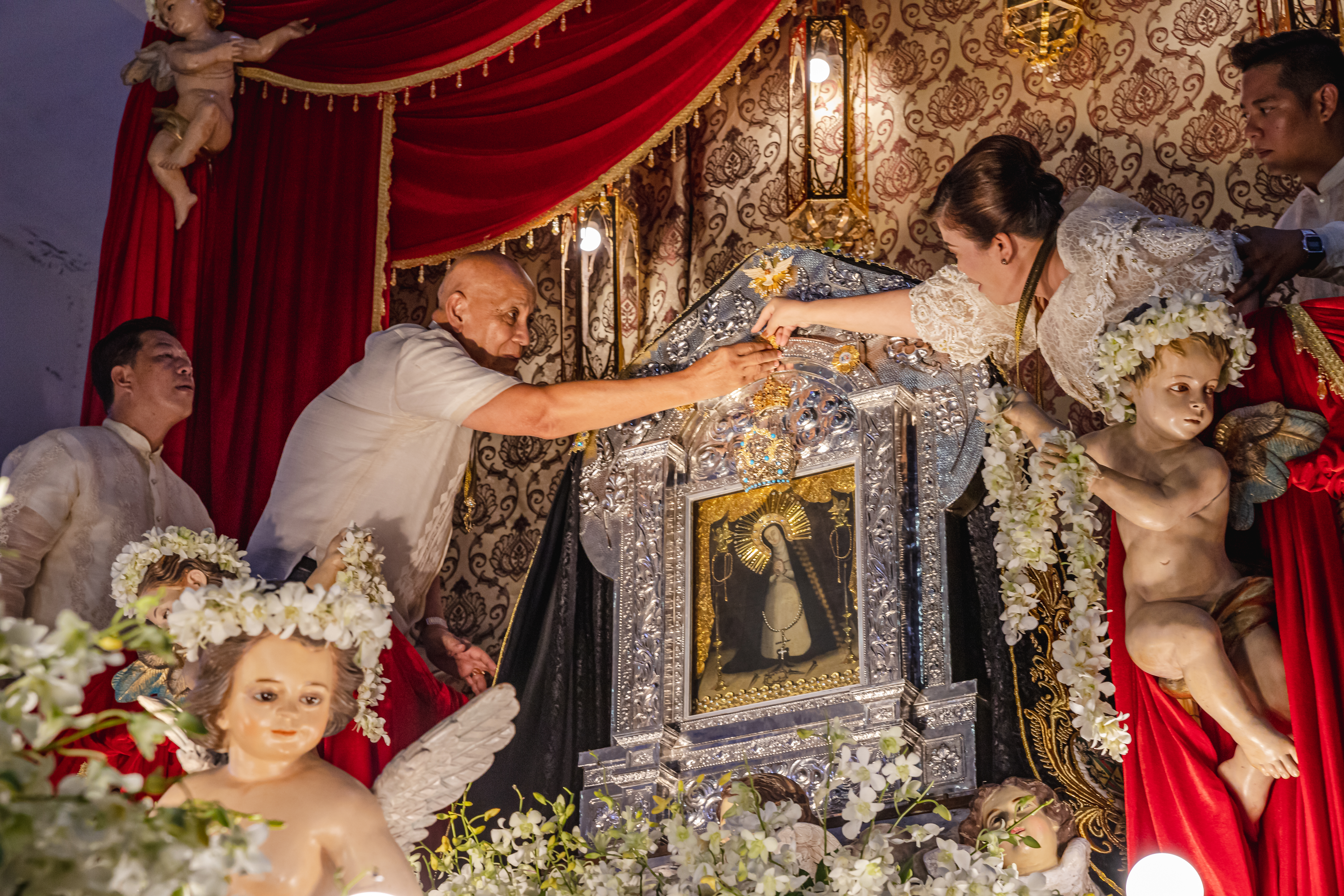 Imposition of Pins as Our Lady of Solitude of Porta Vaga as a National Cultural Treasure of the Philippines